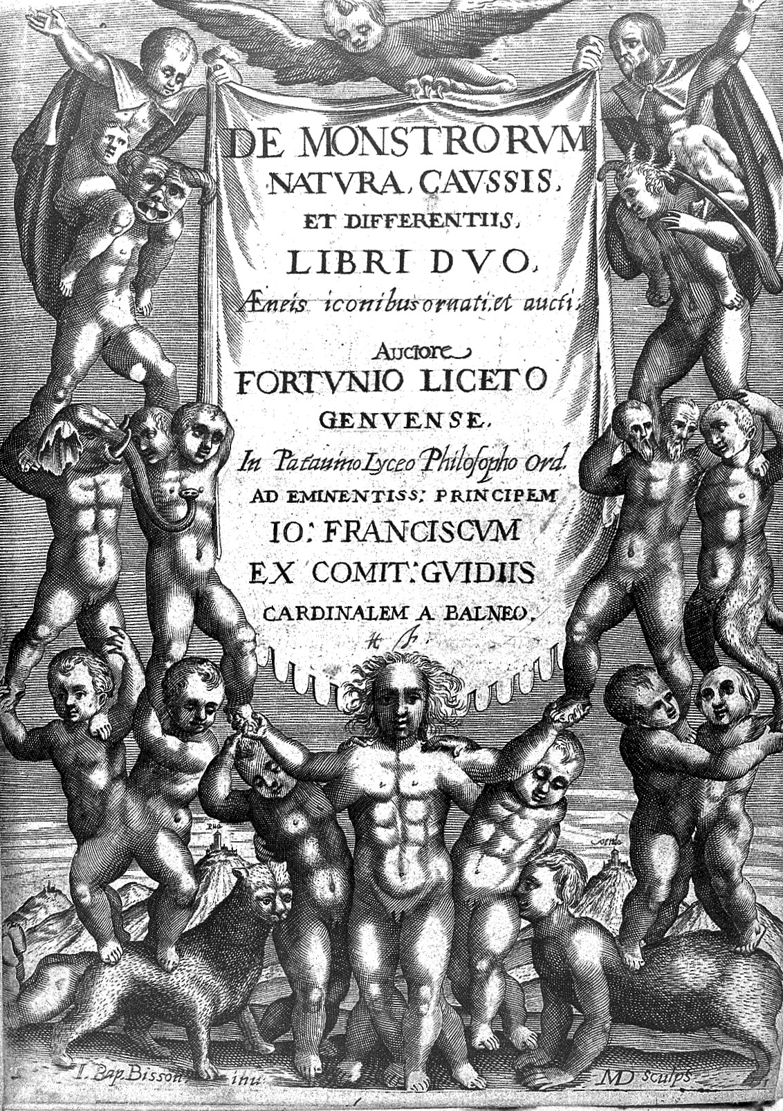 Rare Books Keywords: Fortunius Licetus